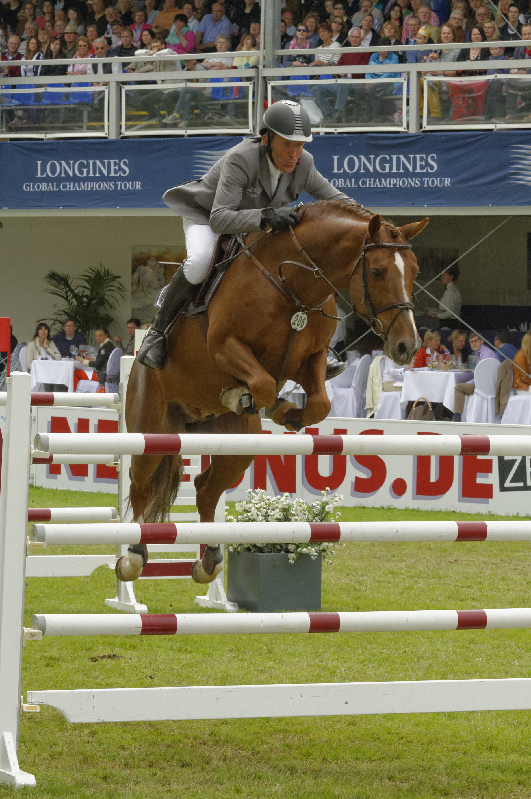 Internationales Pfingstturnier Wiesbaden 2013 The making of this document was supported by the Community-Budget of Wikimedia Germany.